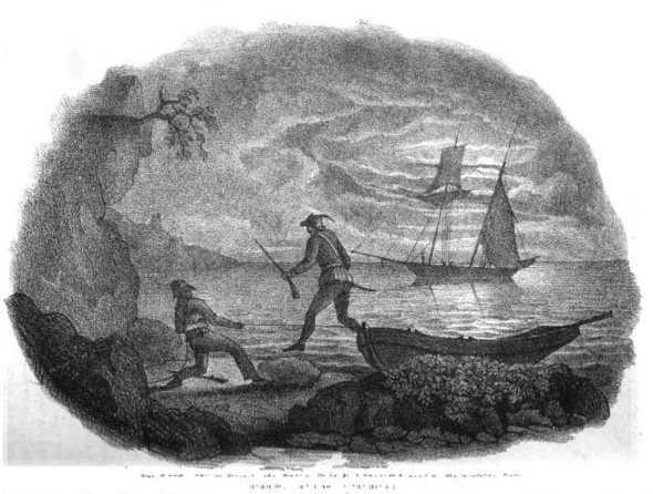 From: Bower of Taste (Boston: Dutton & Wentworth, Exchange St., 1828). Drawn by Edwards (probably Thomas Edwards (1795–1869))